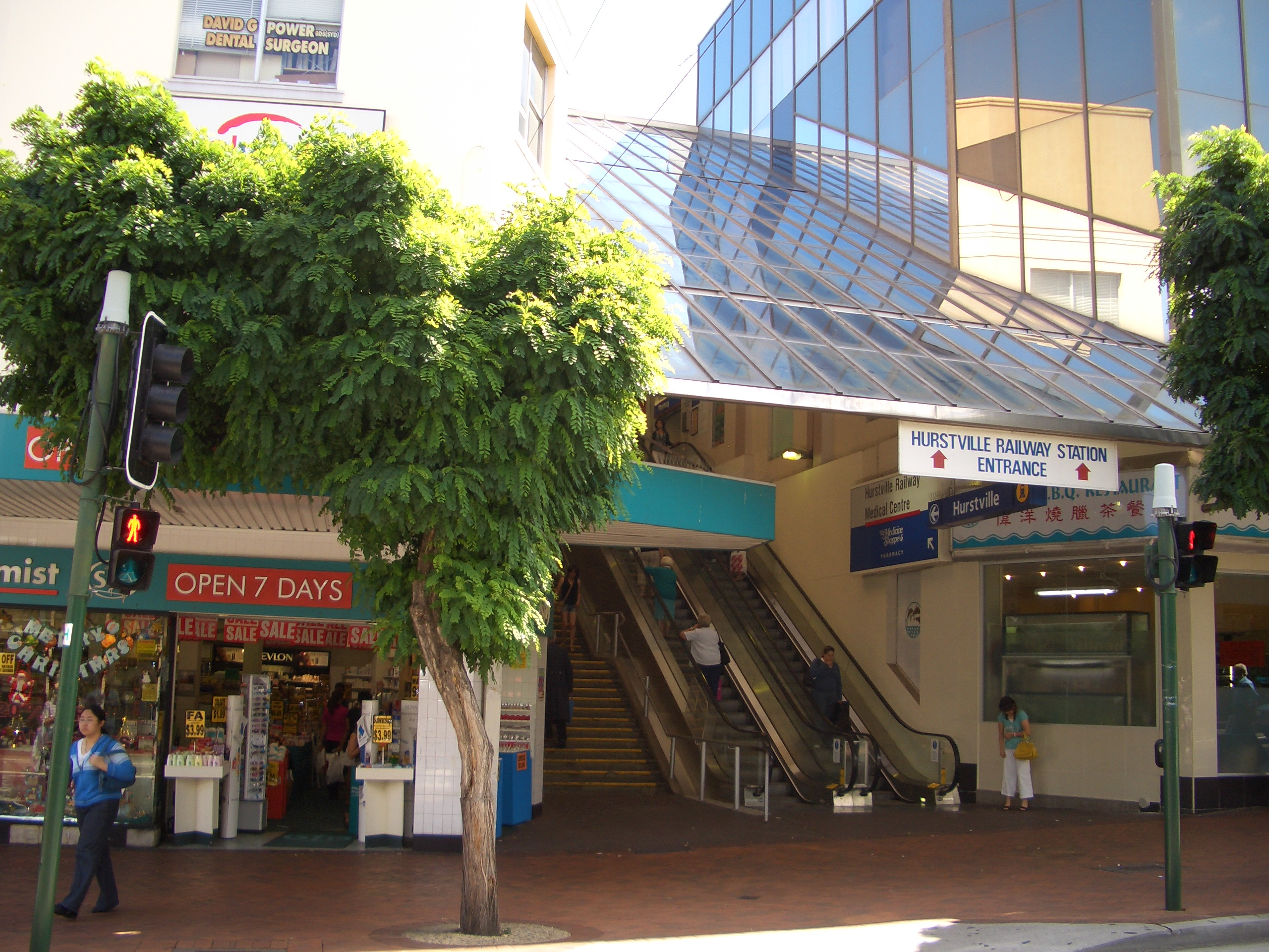 Hurstville Railway Station entrance in Forest Road